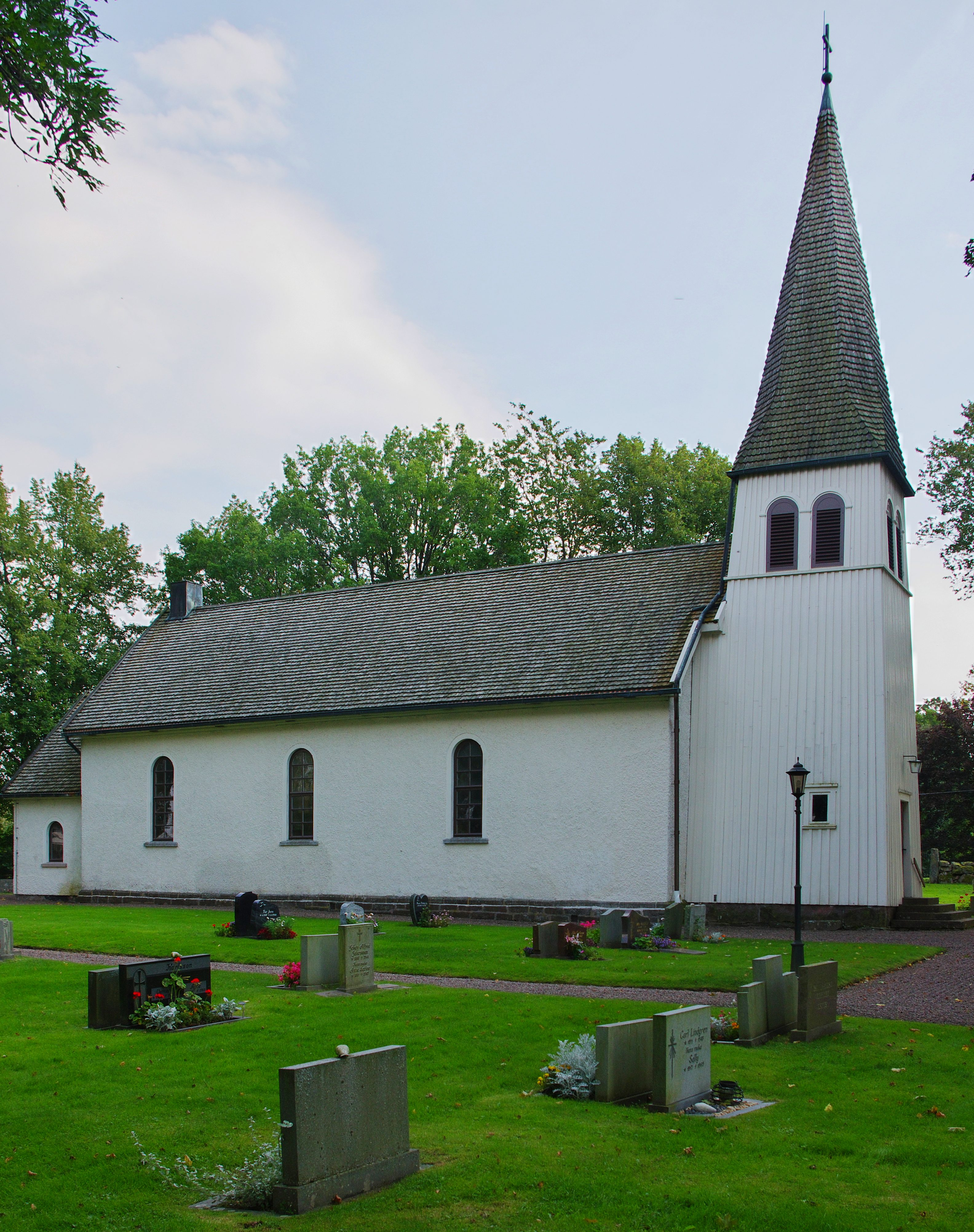 Marums kyrka (swedish:Marum church) in Marum parish, Skåning hundred, Västergötland and Skara municipality, Västragötaland county, Sweden.